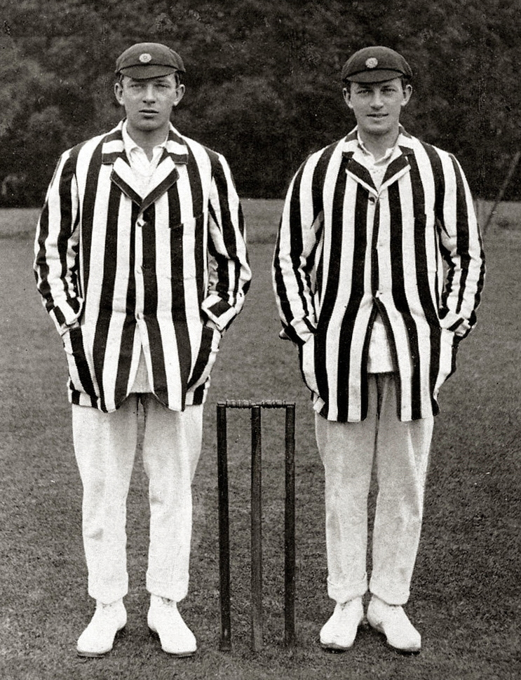 William Herbert Denton with his twin brother John Sidney Denton who both played county cricket for Northamptonshire before and after World War I